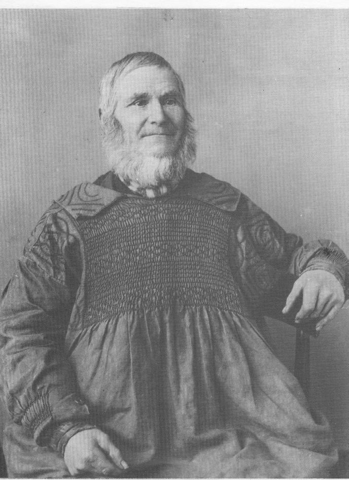 Thomas Pitkin of Swanbourne (1826-1910), an agricultural labourer